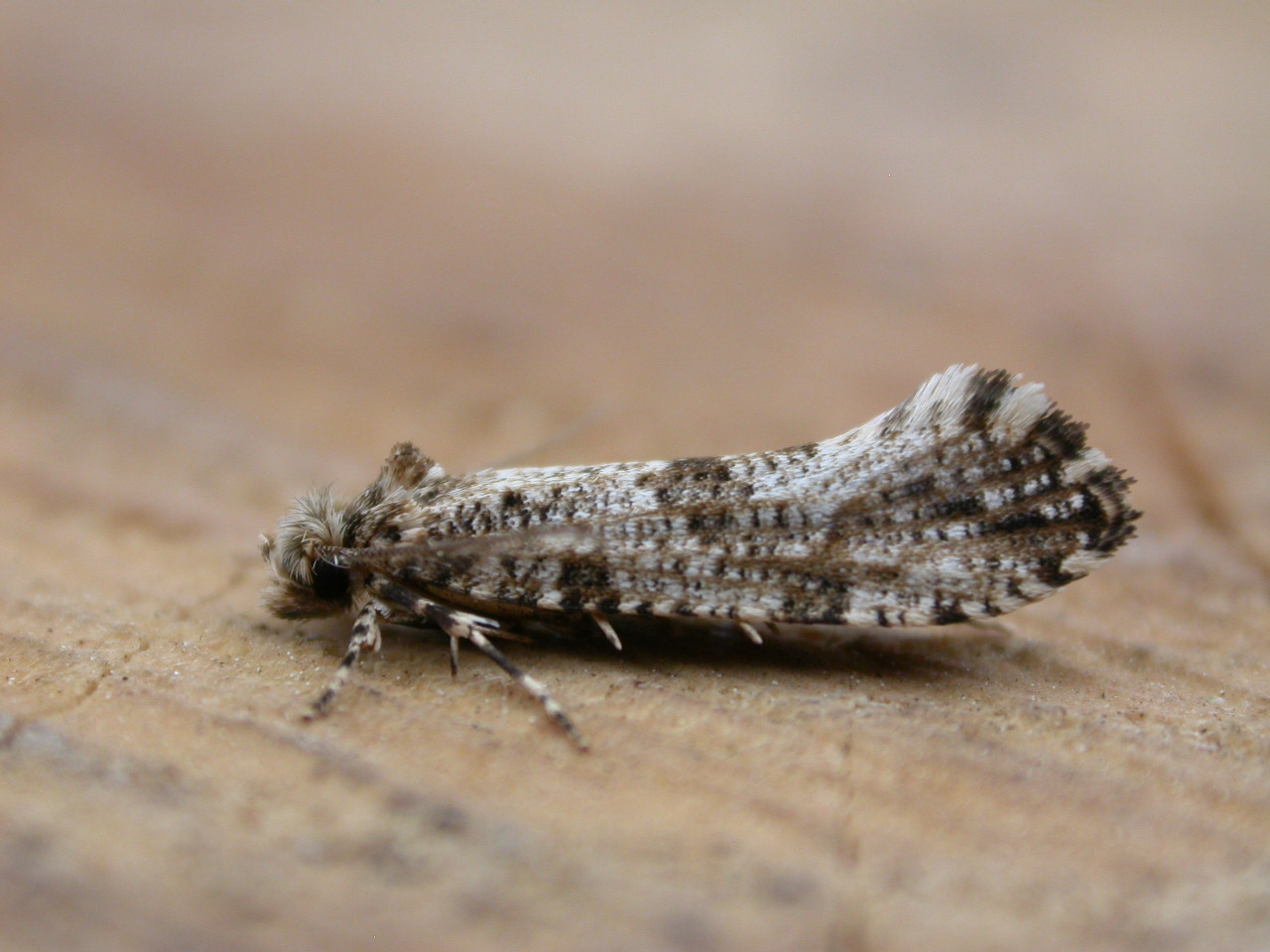 Morophaga choragella, to MV light, Hellerup, Denmark, 4 June 2003